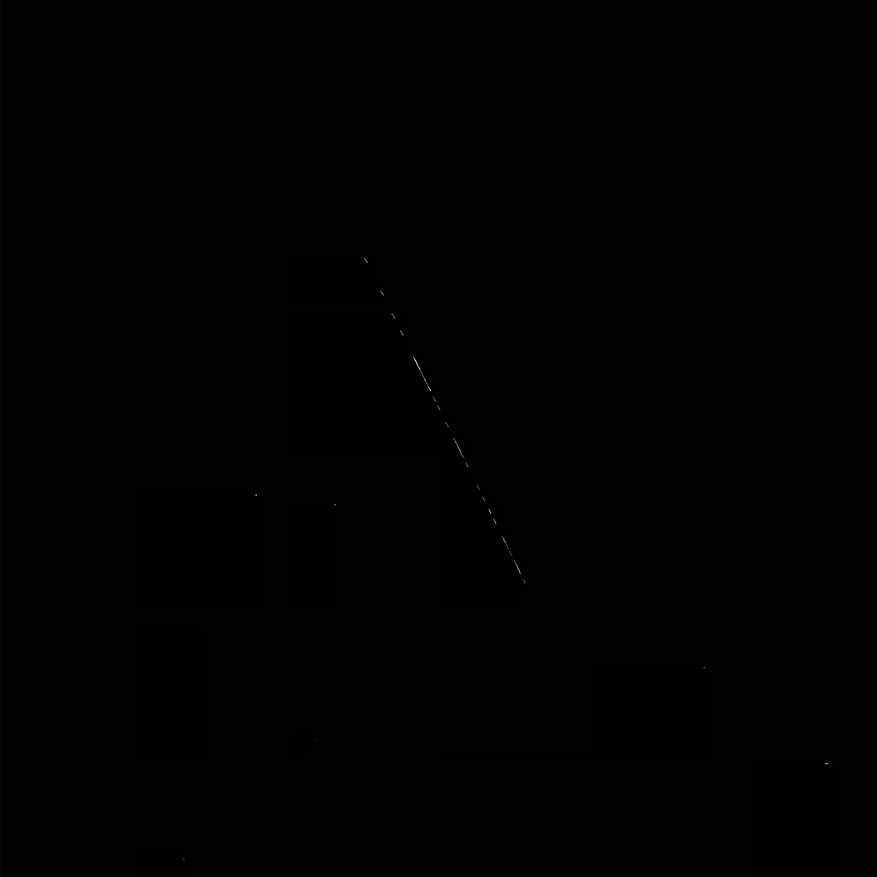 Satellites from the SpaceX Starlink 6 mission passing over Cervinia, Italy on the 24th of April 2020. Picture taken from Clemente Rivetti, cropped and enhanced by Gtoffoletto